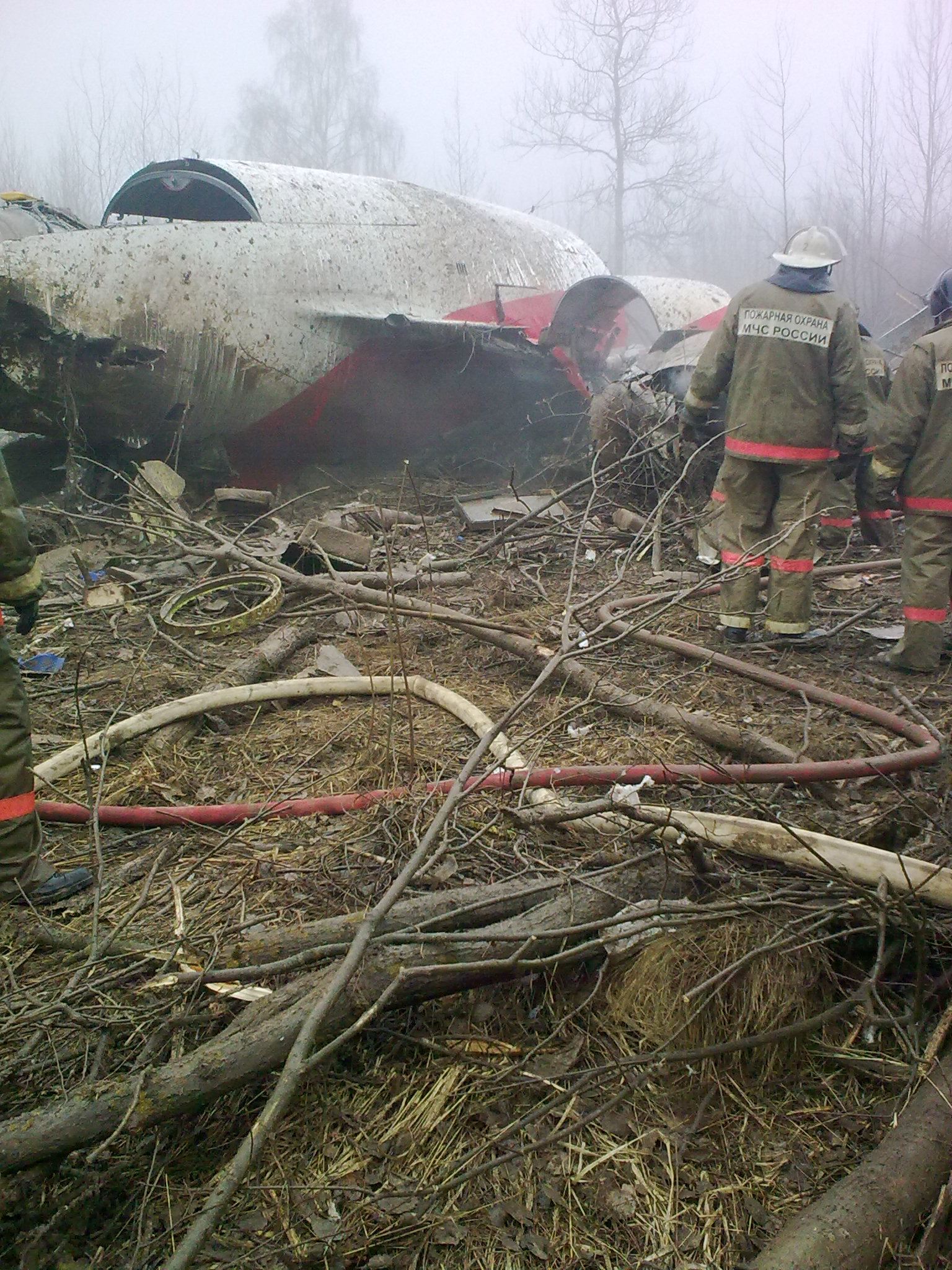 Smoleńsk tragedy